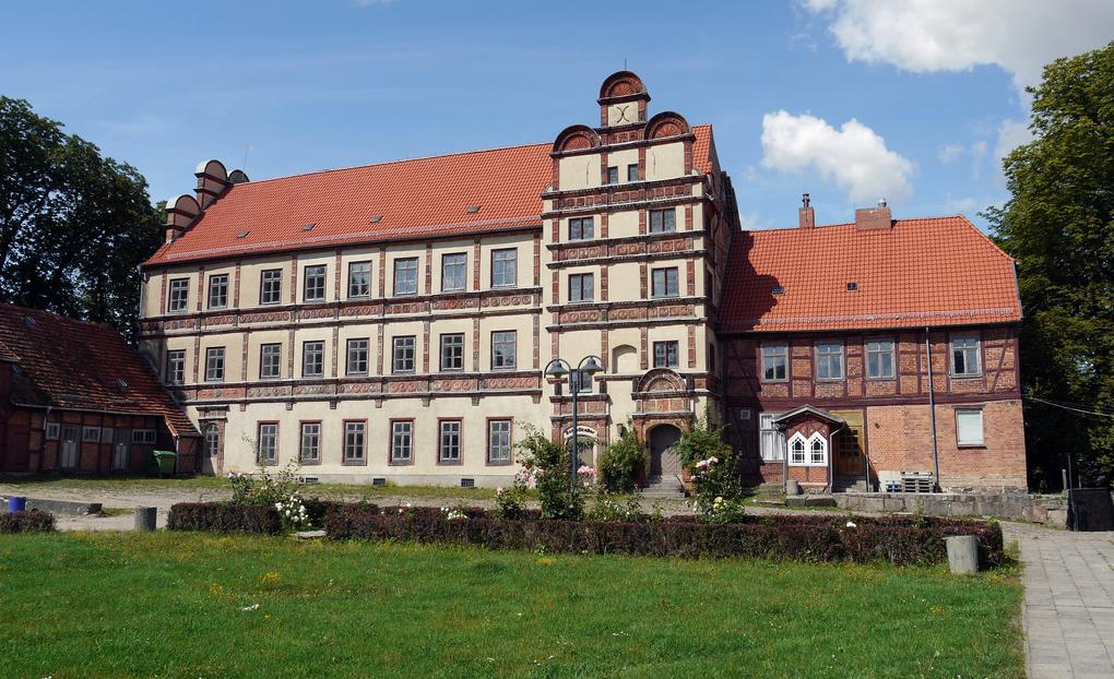 Gadebusch Brick Renaissance Castle from 1573, Mecklenburg, Germany.